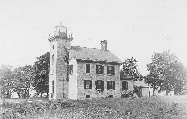 Green Island Light (Ottawa County, Ohio) Object location41° 38′ 44″ N, 82° 51′ 57″ W